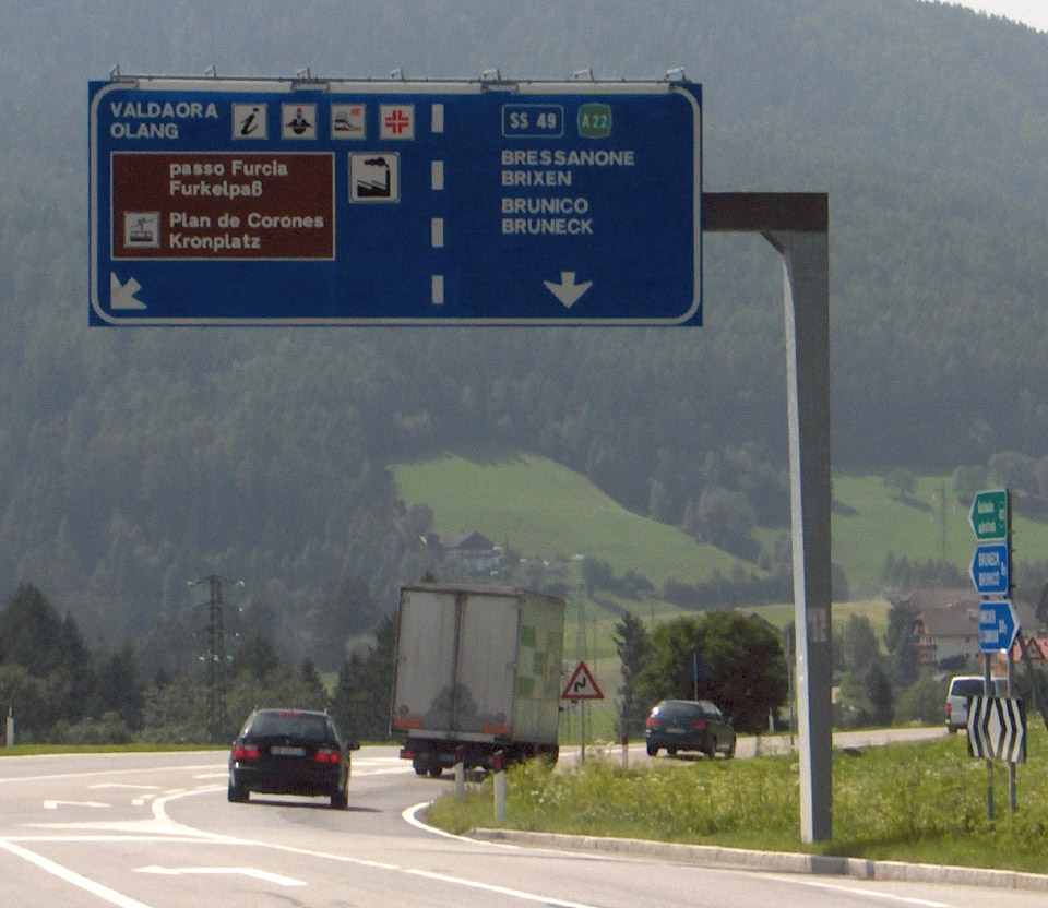 Bilingual local road sign in South Tirol (Olang/Valdaora), Italy. Photo taken by User:Dch in year 2005.